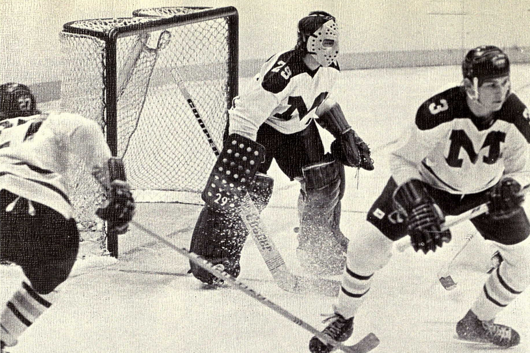 Photograph of Robbie Moore (No. 29) and Greg Fox (No. 3)